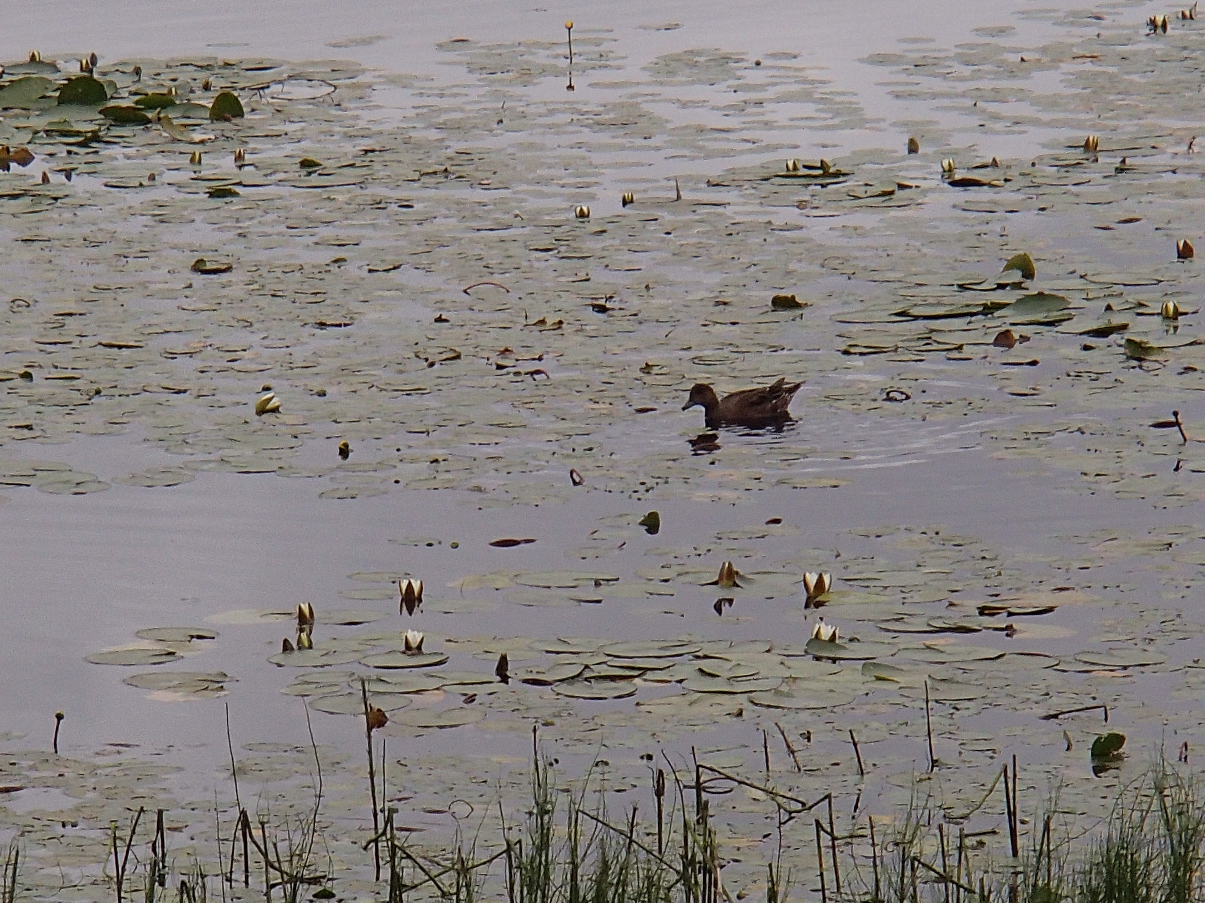 Gräsand på Mjölkuddstjärnen